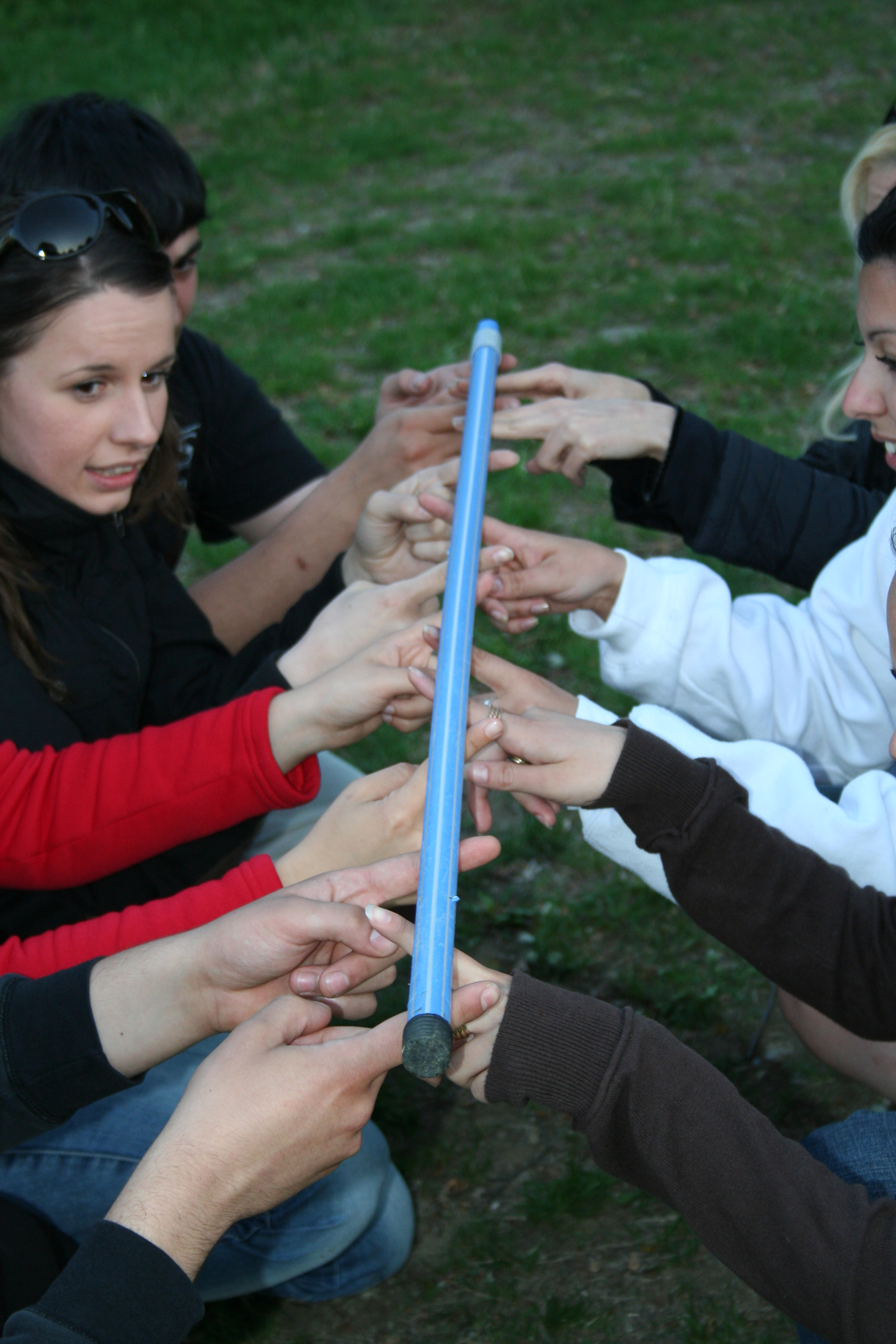 A CISV educational activity - cooperation game